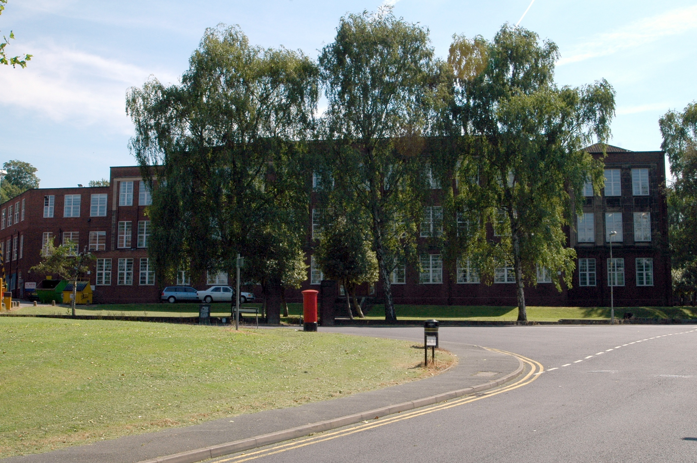 This is one of the buildings as part of Dudley College in Dudley, West Midlands.